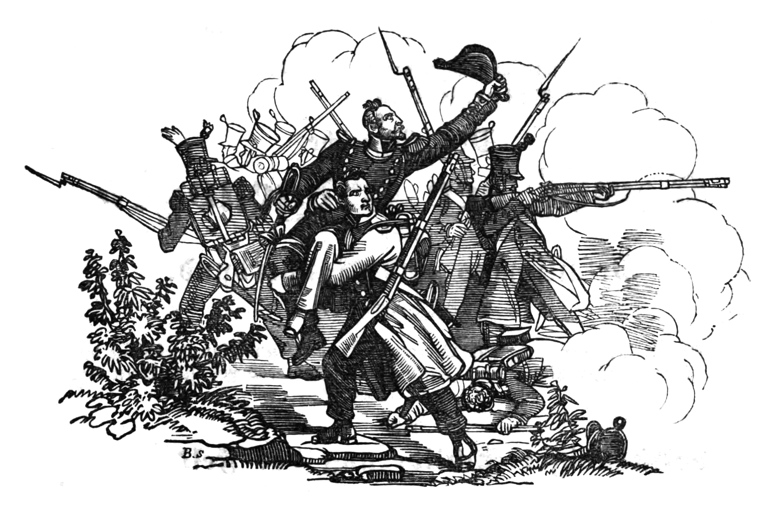 Sonderbund War, Switzerland, 1847: Scene from the Battle of Airolo.